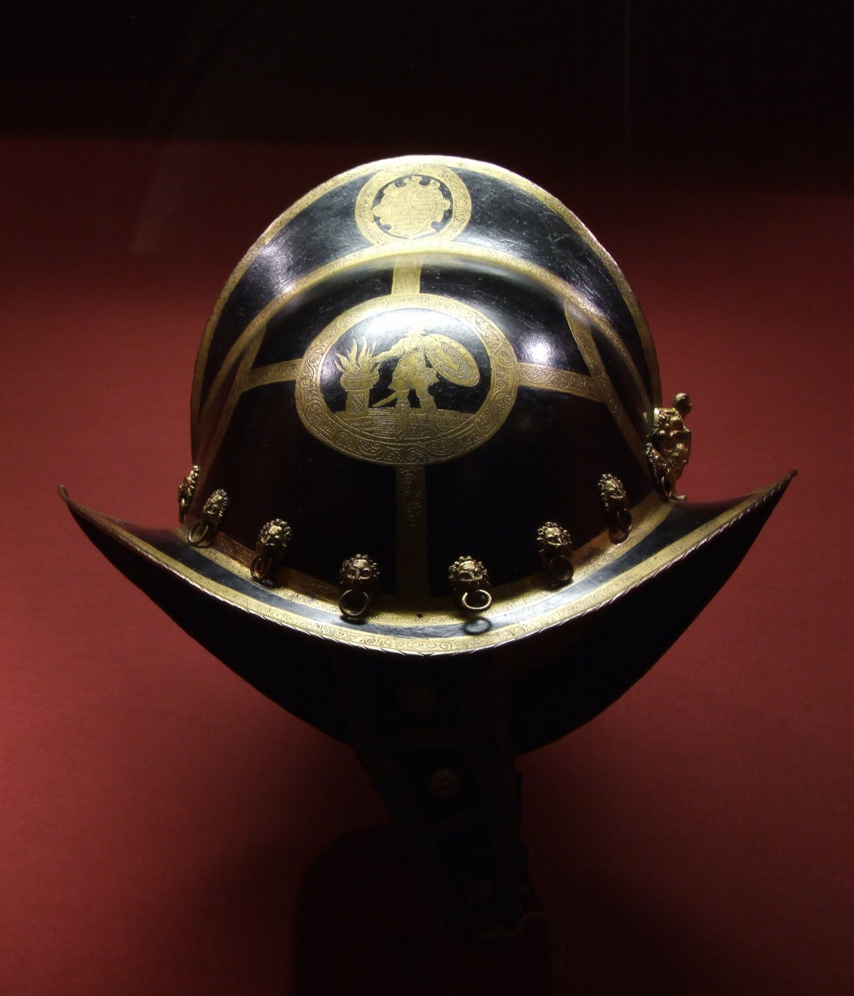 Rüstkammer, Dresden - morion. Nürnberg,end of the XVI century